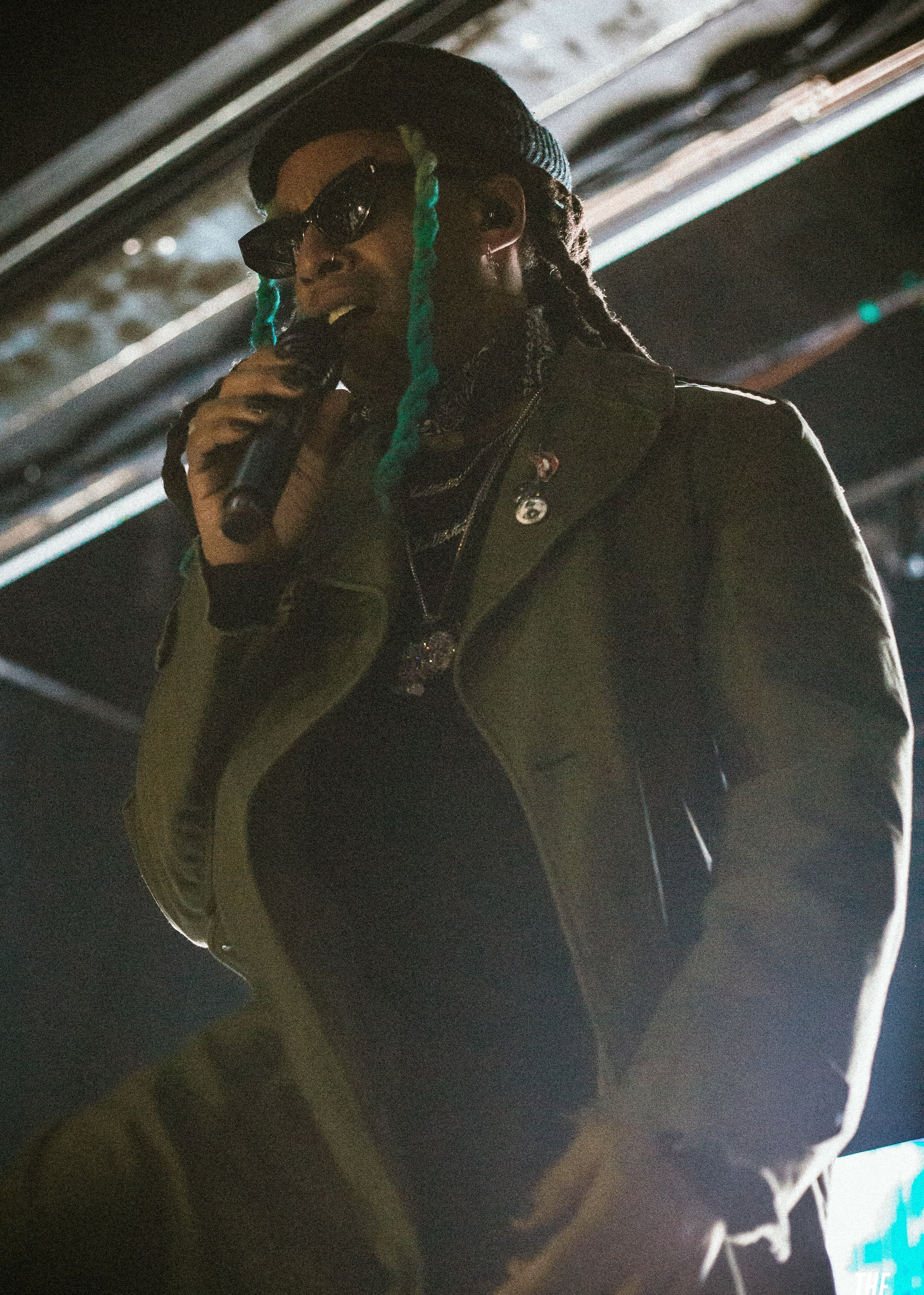 Ty Dolla Sign in March 2018